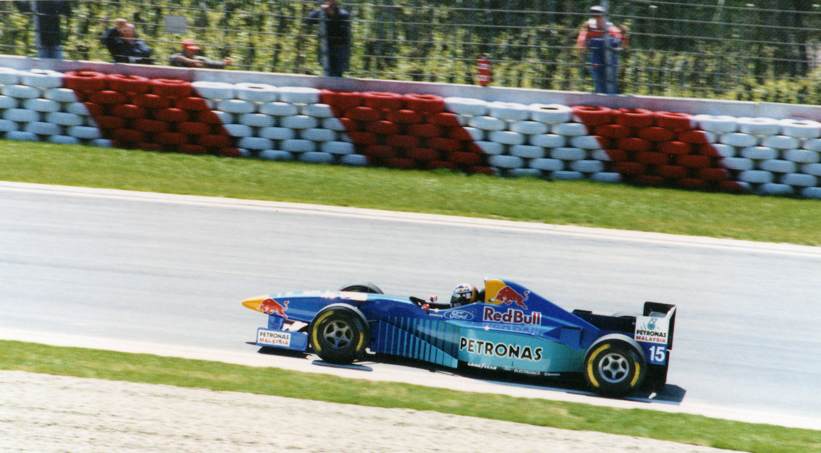 Heinz-Harald Frentzen during free practice of 1996 San Marino Grand Prix.